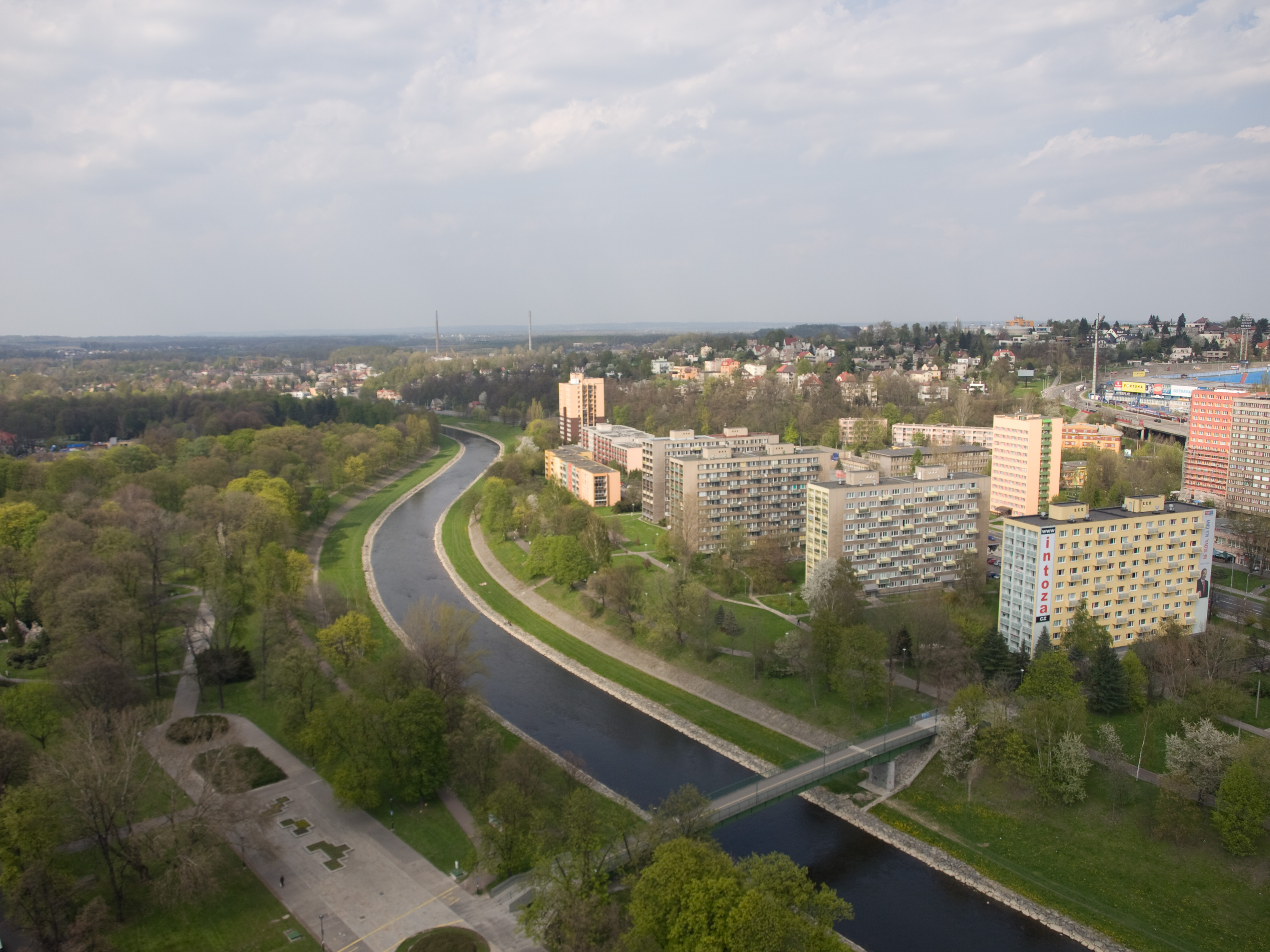 Views from Nová radnice, Ostrava